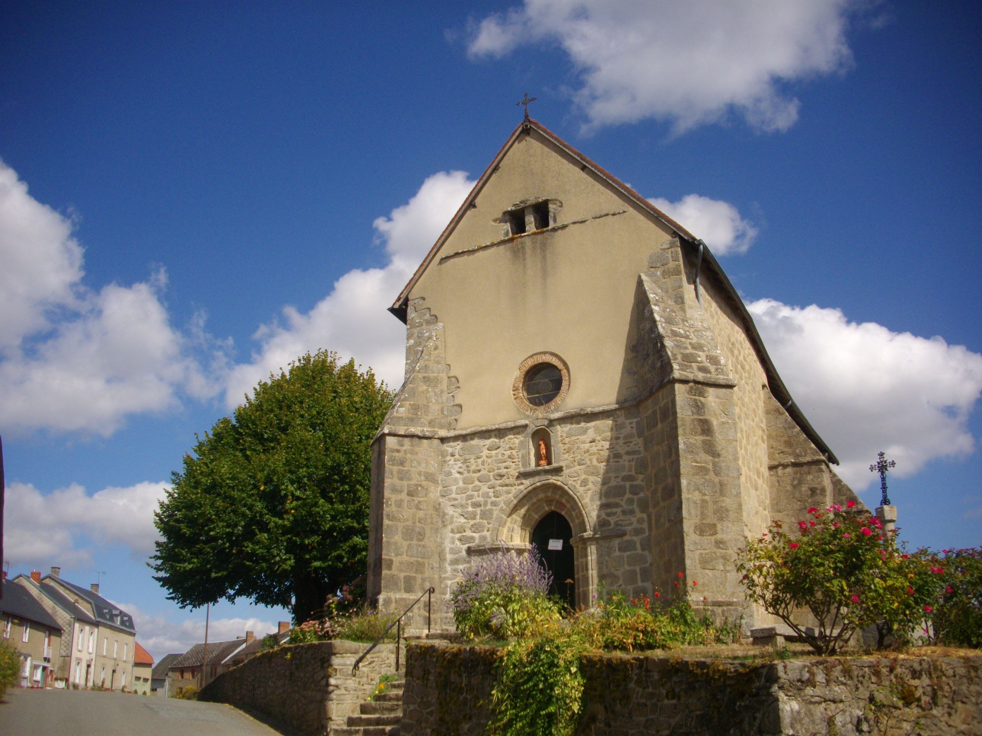 Assumption of the Holy Virgin church of Vigeville (Creuse, France), seen from south-west